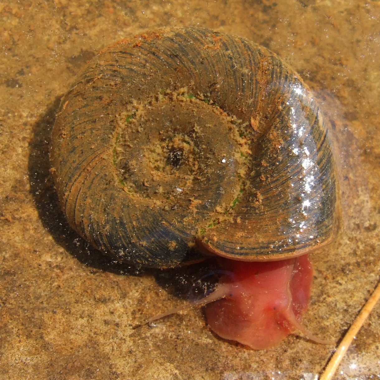 Photo of an albino great ramshorn (Planorbarius corneus) eating algae from the concrete in a lily pond.